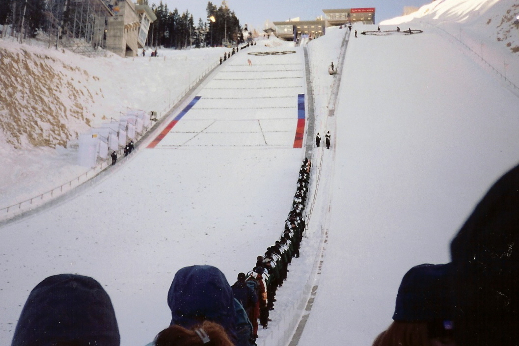 Nordic combined at the 2002 olympics in Utah Park